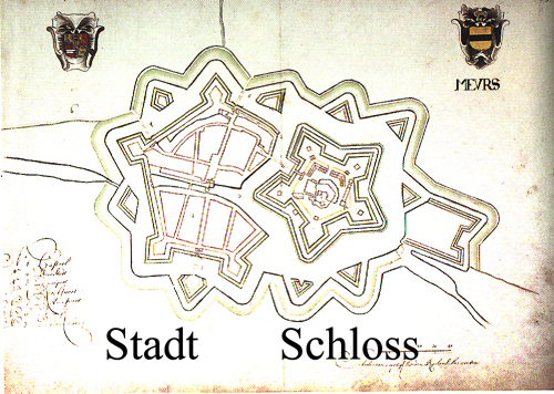 Historical outline of city and castle of Moers